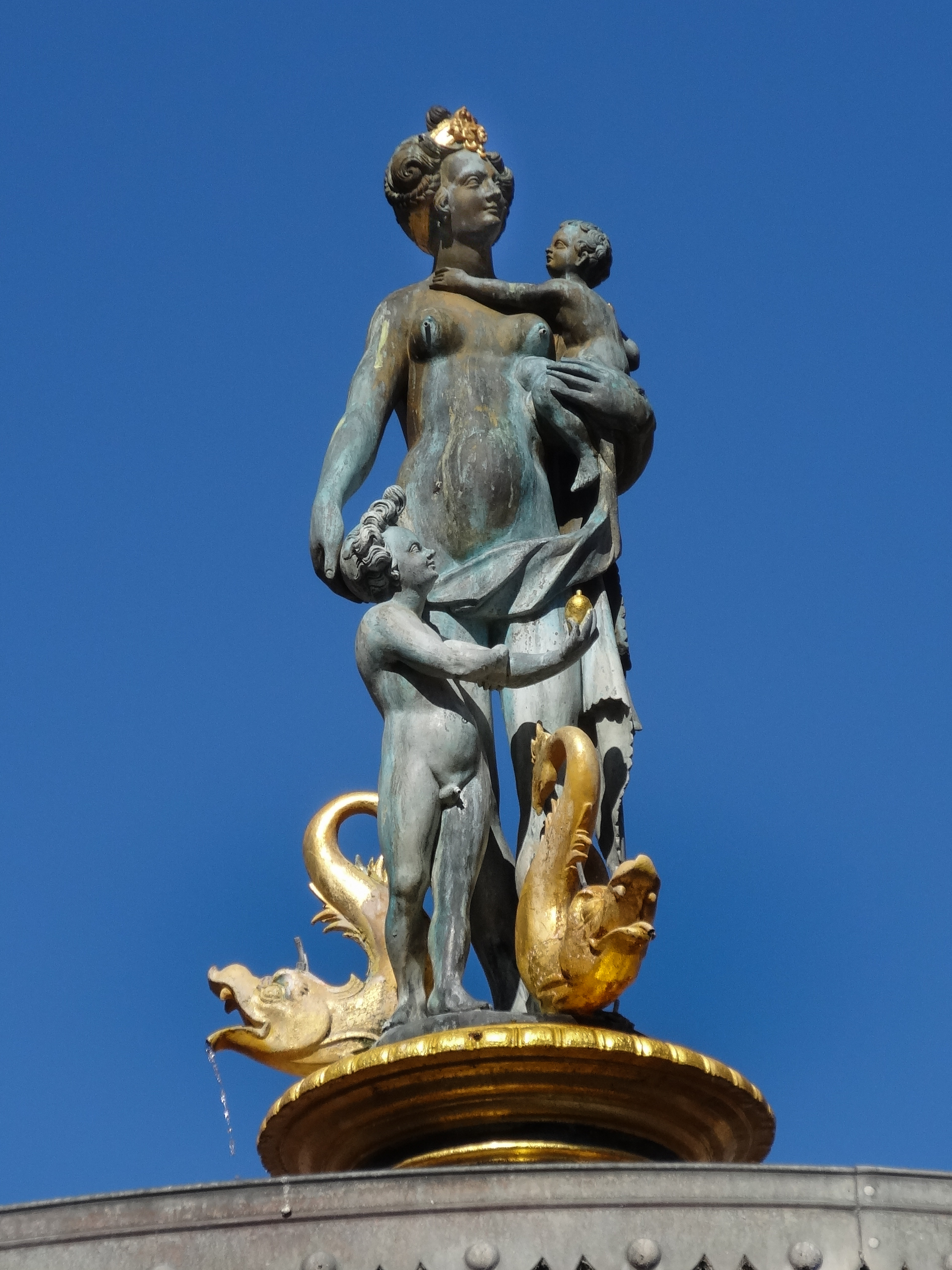 The statue element of the Caritas Fountain in Copenhagen, Denmark